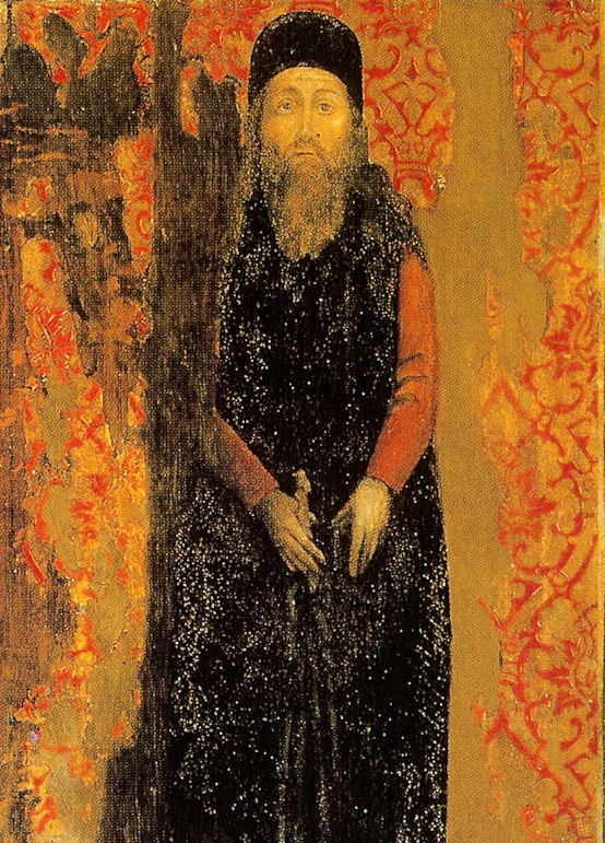 batalha monestary Image of the Portuguese Ferdinand the Holy Prince (Fernando o Infante Santo), depicted as a prisoner in a Moroccan jail in Fez. Center panel of a tryptych commissioned c. 1455-1460 by Prince Henry the Navigator, possibly painted by João Áfonso, depicting the life and passion of Ferdinand, to be placed in the chapel of Henry the Navigator at Batalha monastery.